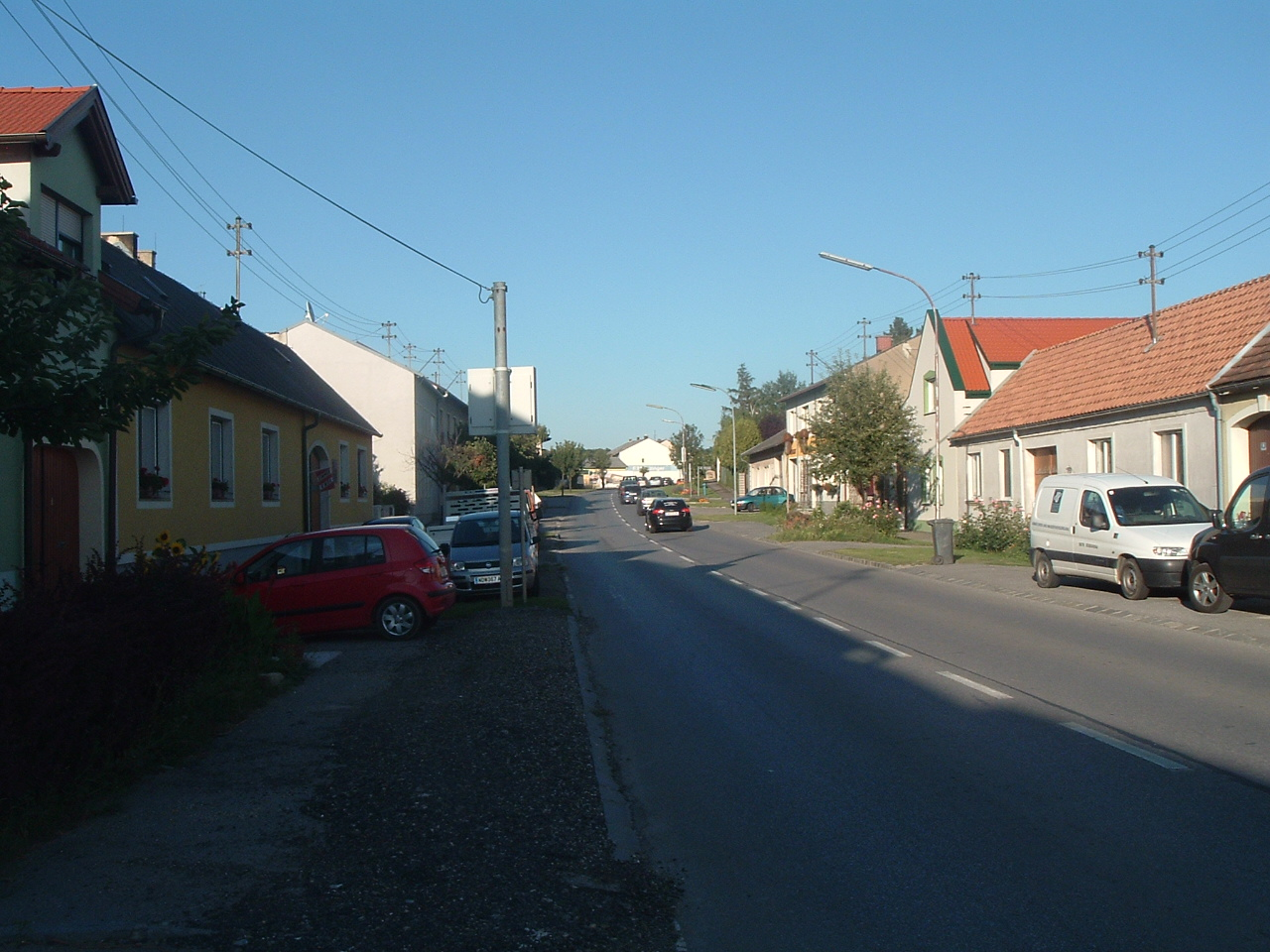 Jois, Burgenland, Austria